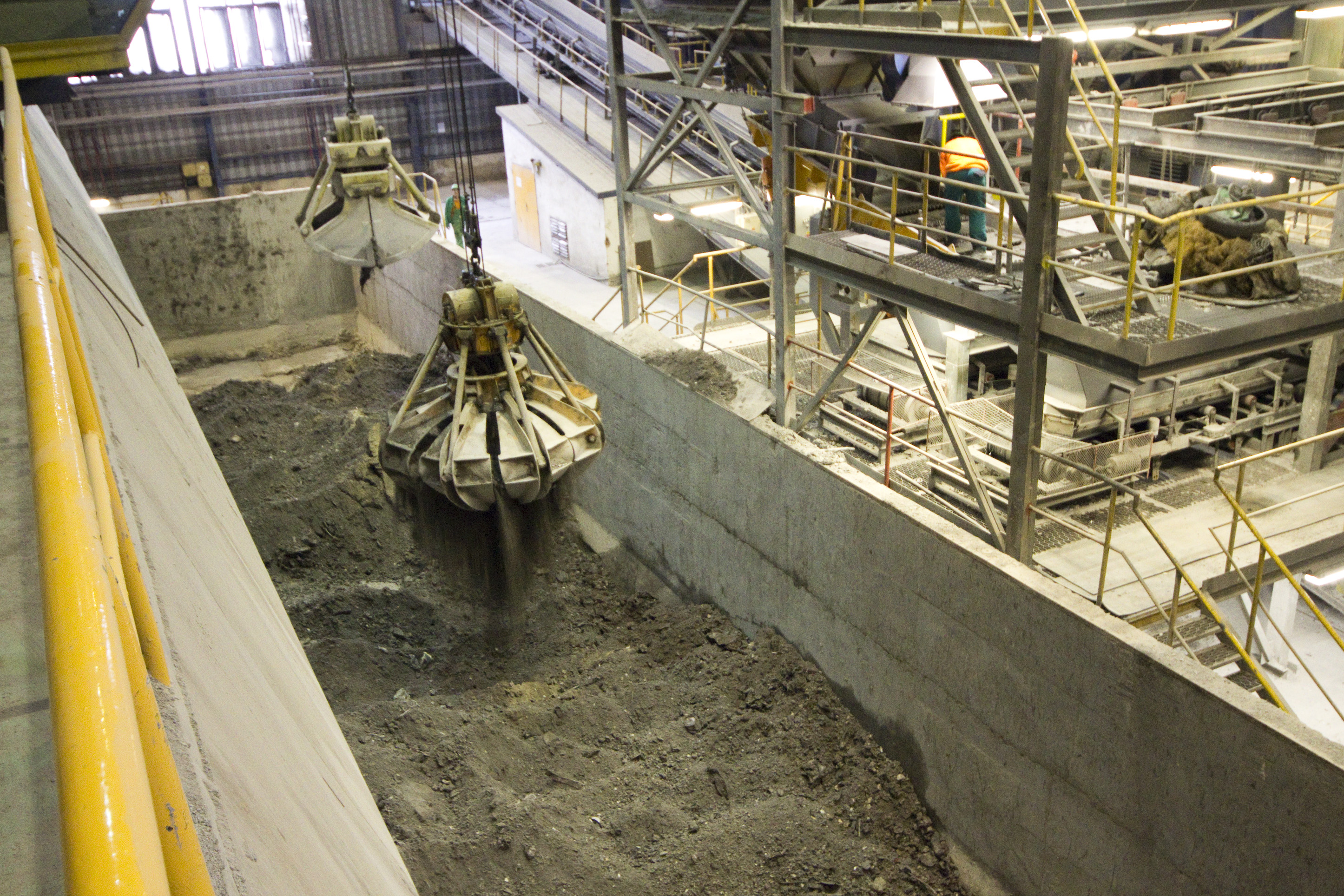 Slag tank - Malešice incinerator, Prague Tato série fotografií vznikla za laskavého svolení společnosti Pražské služby